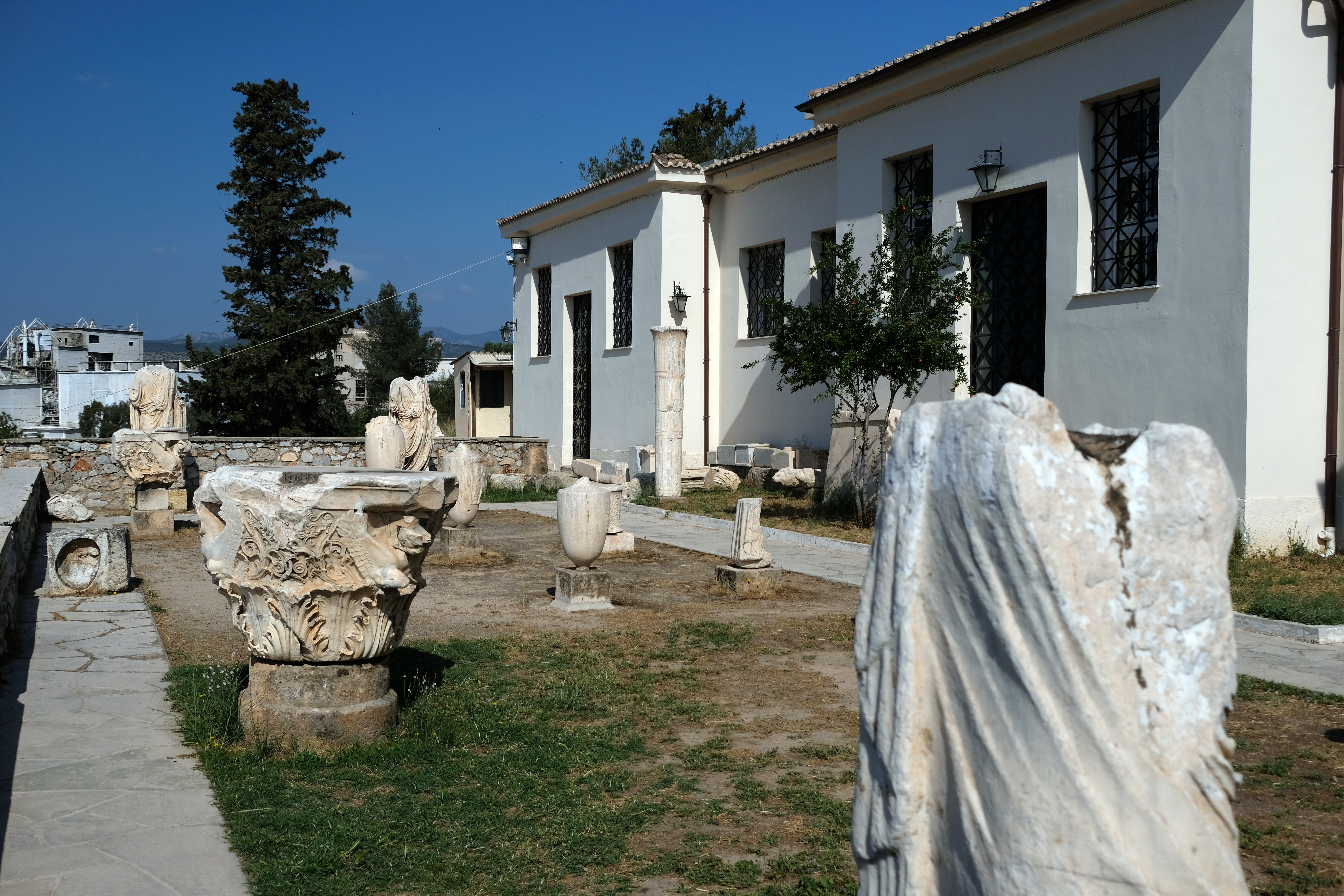 Sculptures of Archaeological Museum of Eleusis